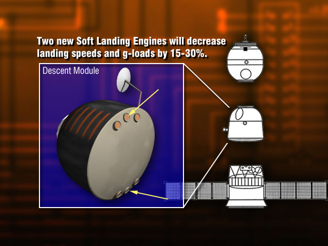 Two new engines on the bottom of the Soyuz TMA Descent Module ignite one second before landing to reduce the force of impact.